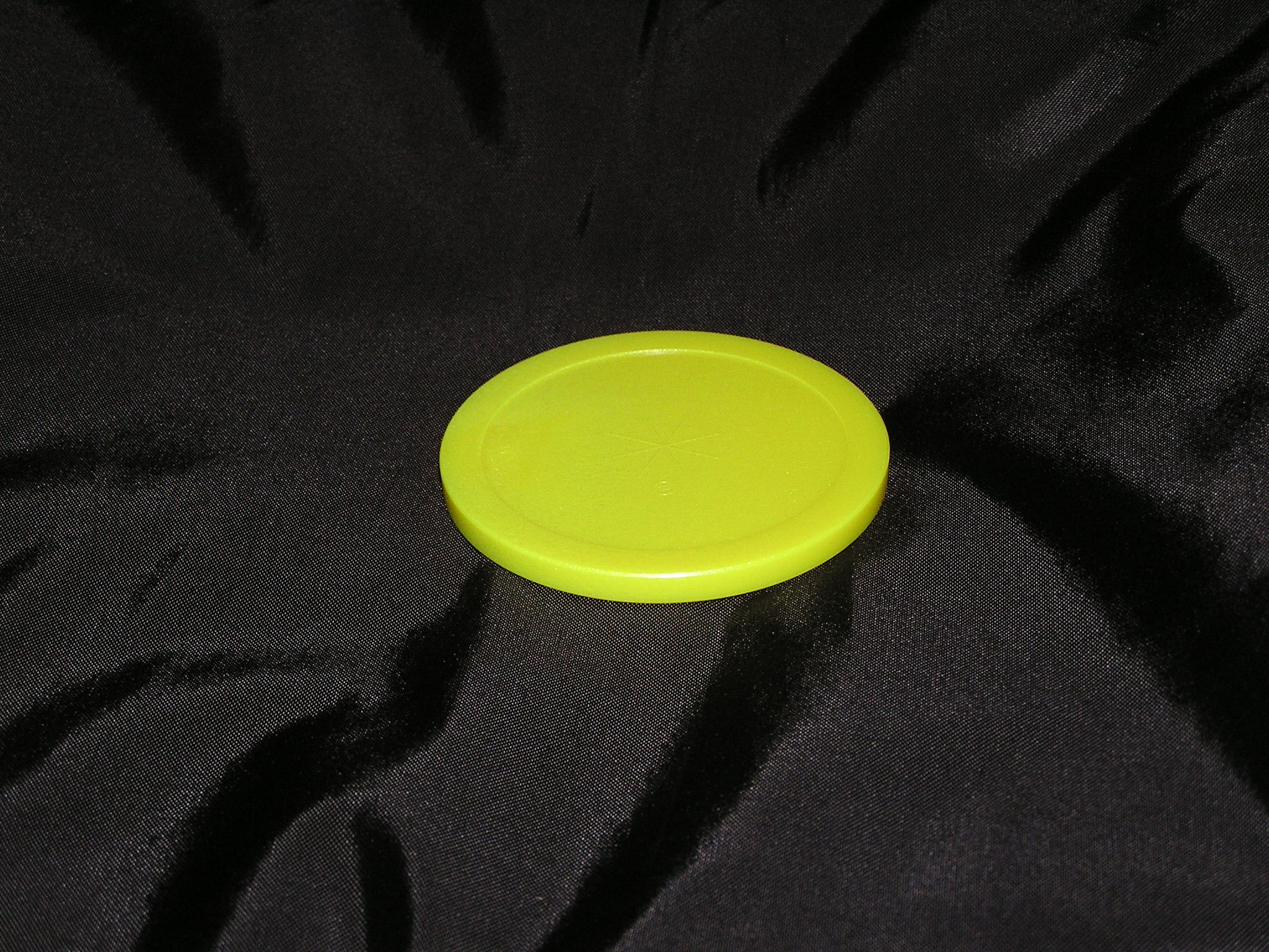 Official yellow puck to play air hockey (lexan)